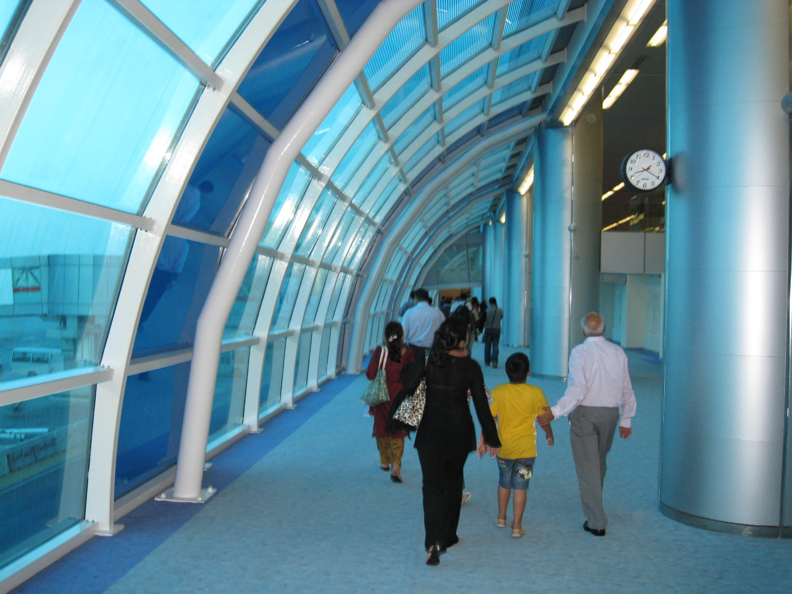 Sharjah International Airport